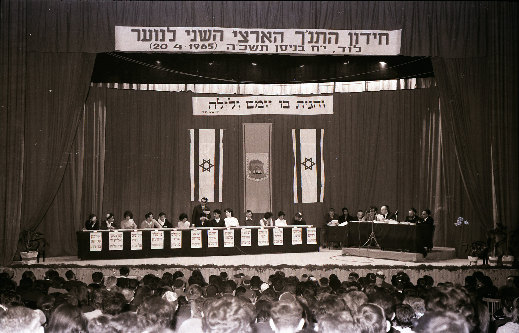 ח